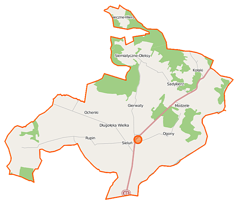 Map of Gmina Młynarze, PolandThis map of Młynarze (gmina) was created from OpenStreetMap project data, collected by the community. This map may be incomplete, and may contain errors. Don't rely solely on it for navigation.